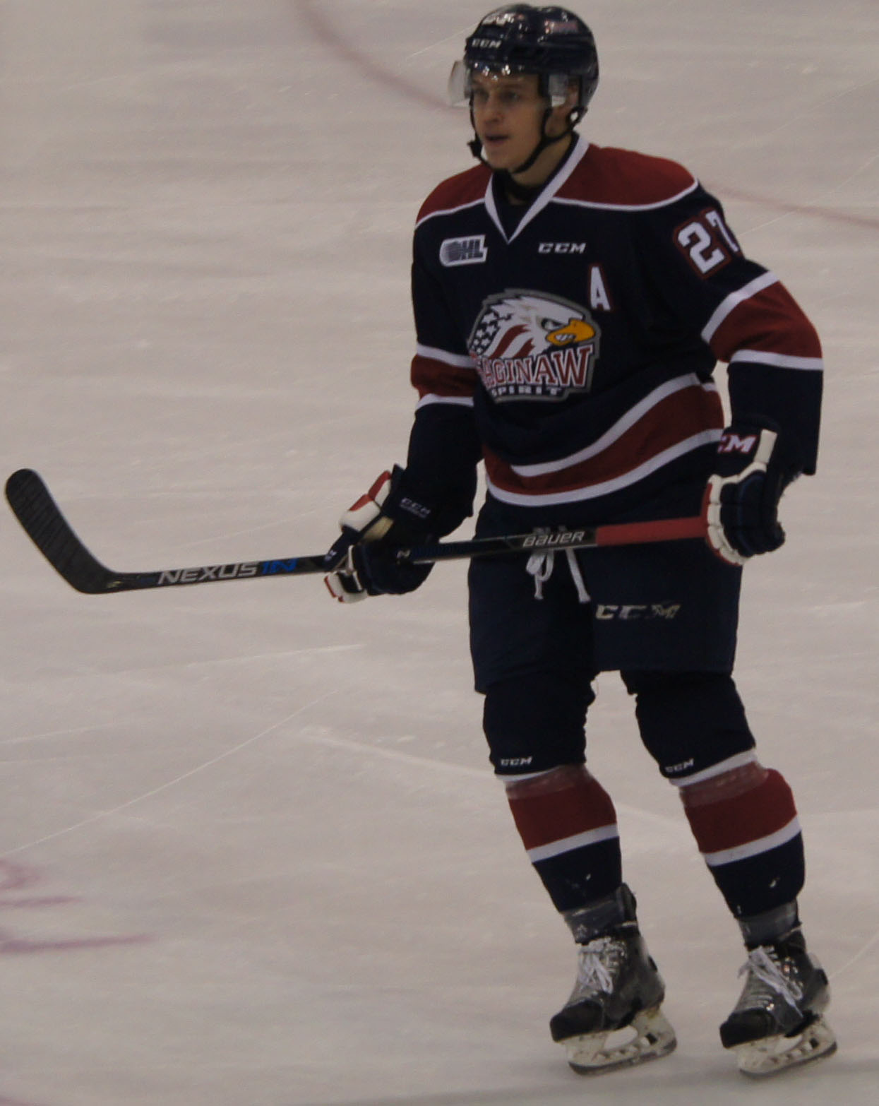 Mitchell Stephens playing for the Saginaw Spirit